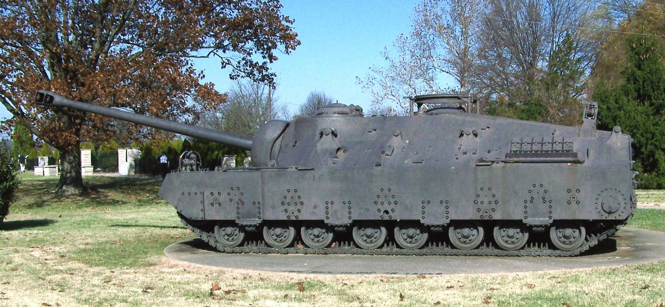 T28 Super Heavy Tank, Patton Museum, Fort Knox, Kentucky